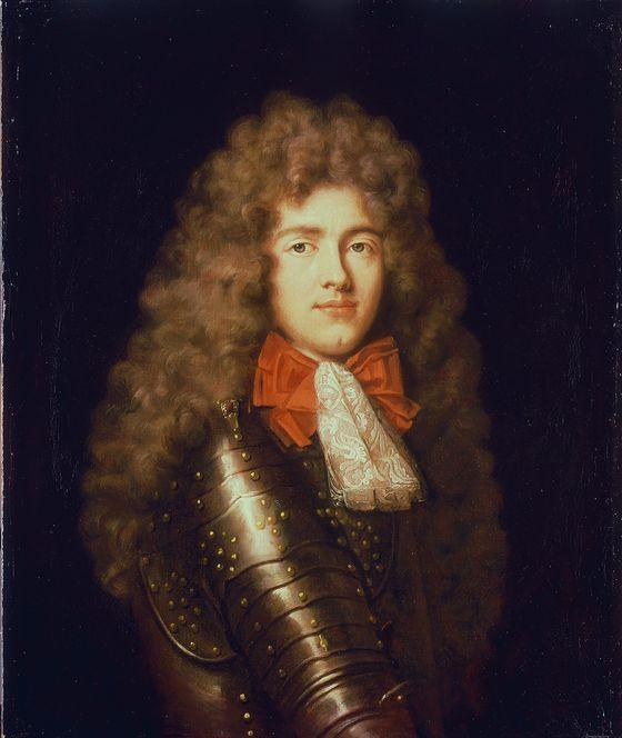 Portrait of James Butler, 2nd Duke of Ormonde